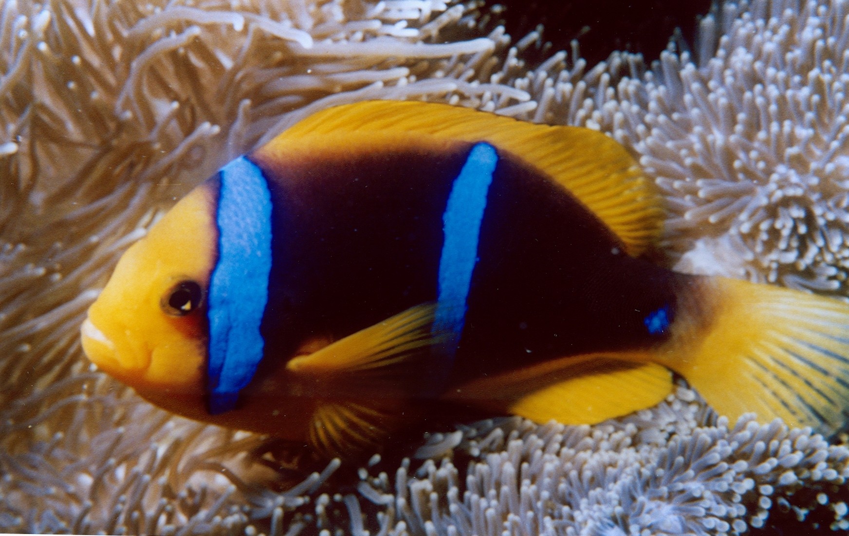 Amphiprion chrysopterus Image ID: reef0907, NOAA's Coral Kingdom Collection Location: Guam, Mariana Islands